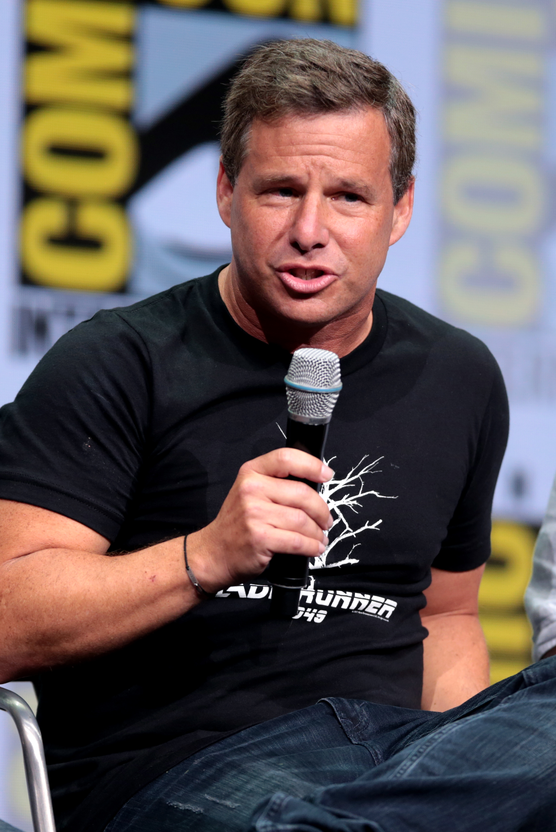 Andrew A. Kosove speaking at the 2017 San Diego Comic-Con International in San Diego, California.